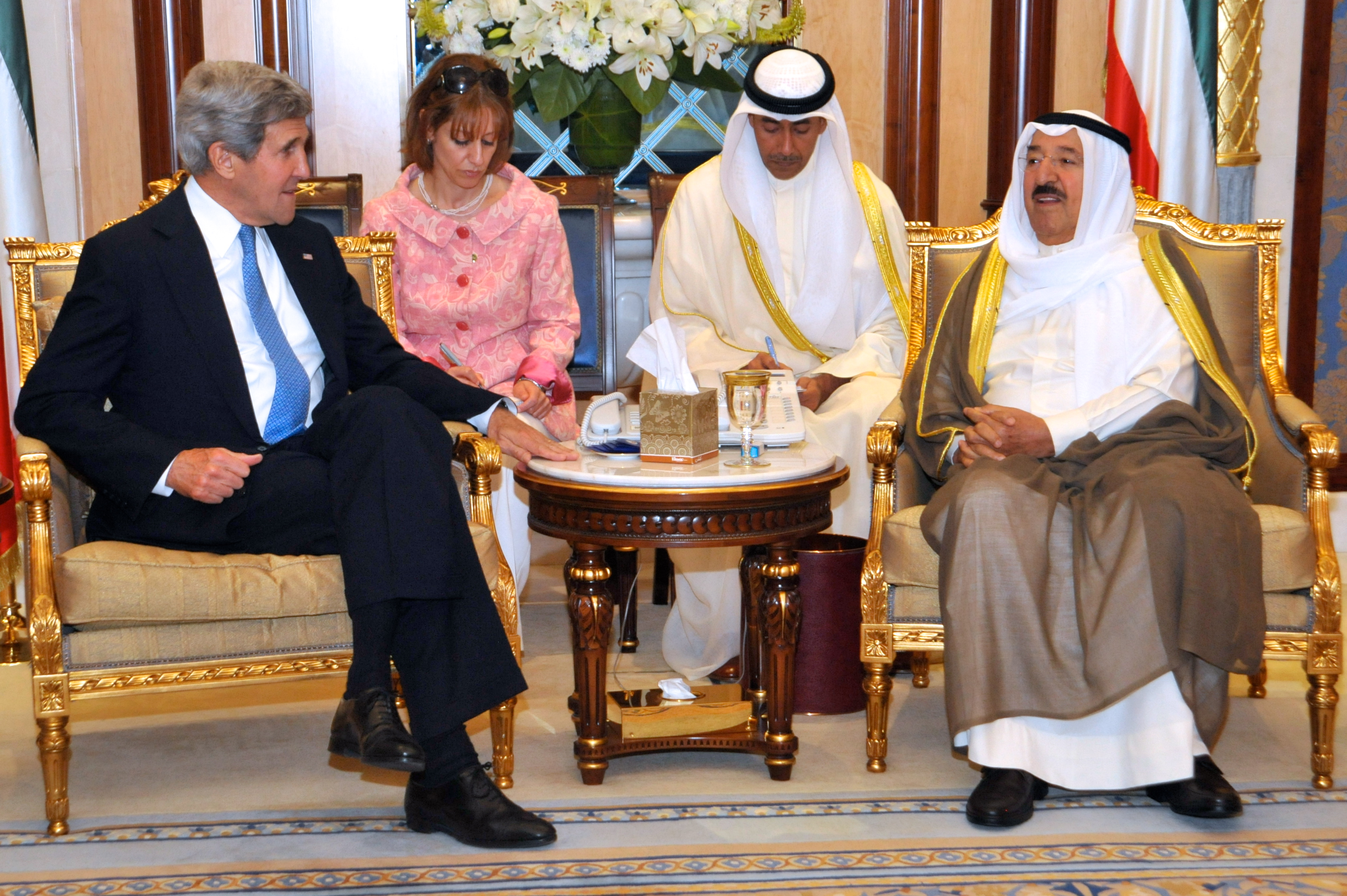 U.S. Secretary of State John Kerry meets with Kuwaiti Amir Sheikh Sabah al Ahmed Al Sabah during a visit to Kuwait City on June 26, 2013.[State Department photo/ Public Domain]